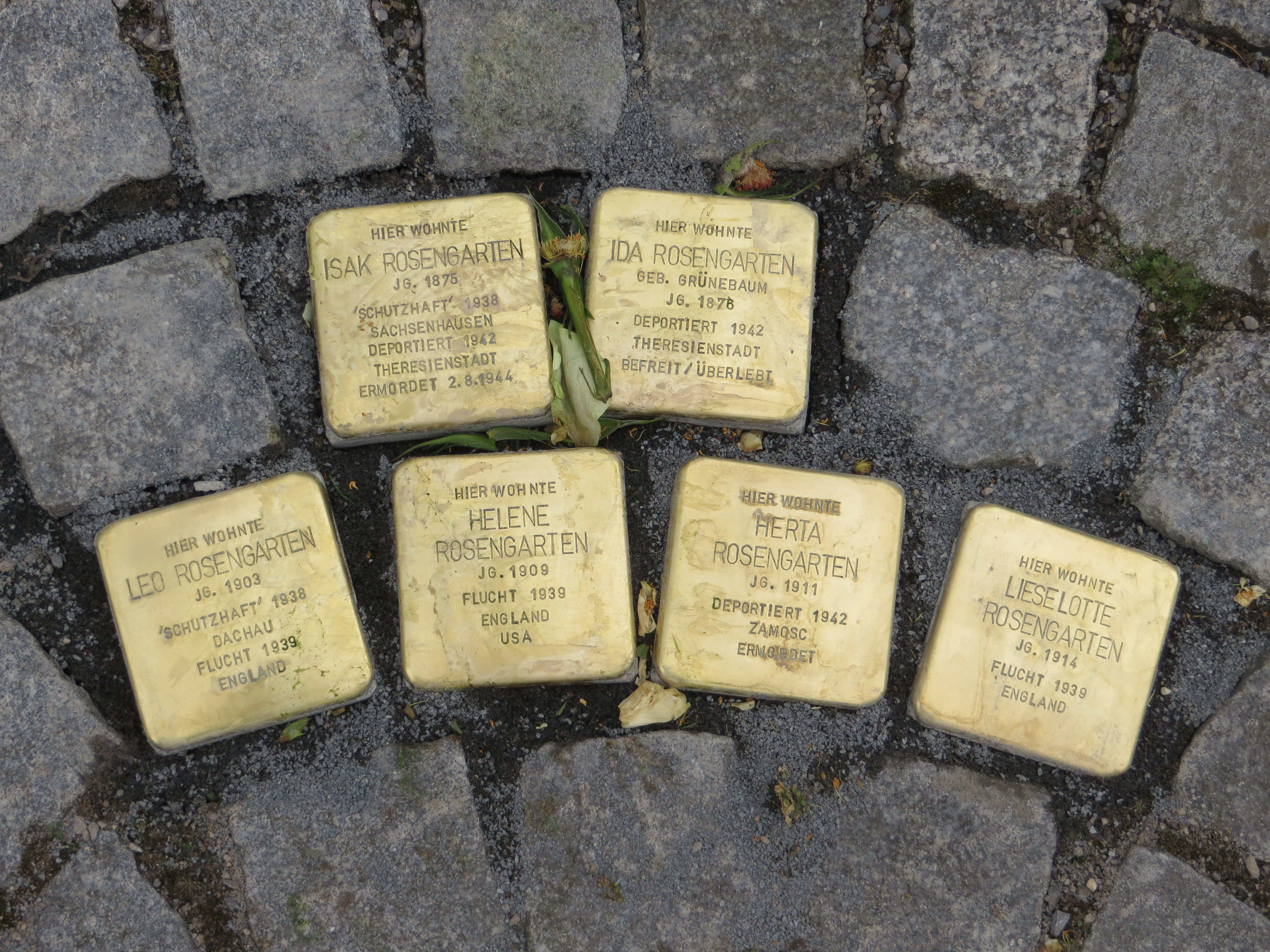 Stolpersteine at house Kirchstraße 31 in Witten, GermanyEsperanto: Stumbligaj ŝtonetoj ĉe domo Kirchstraße 31 en Witten, Germanio